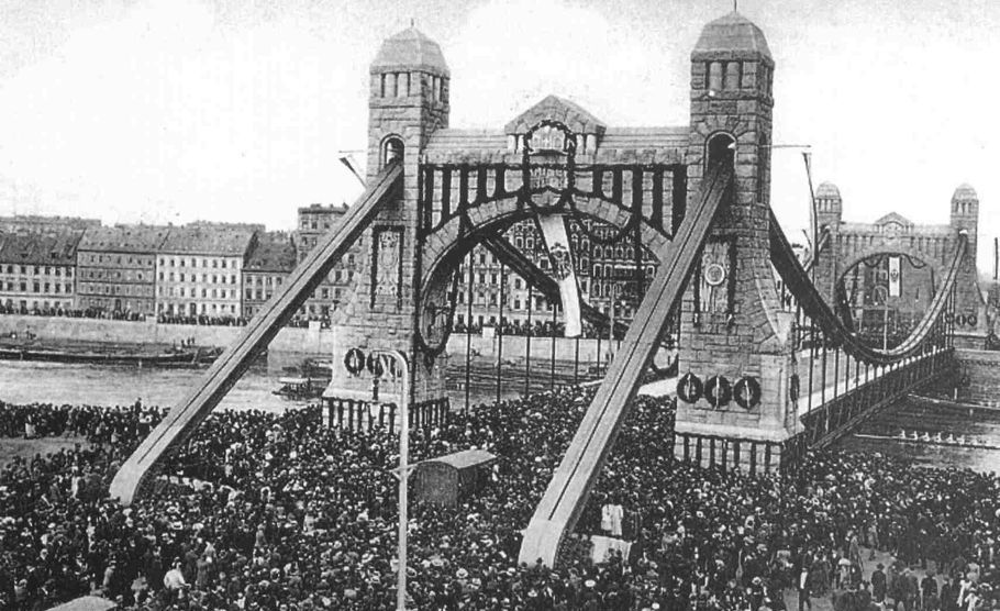 Inauguration of the bridge in 1910